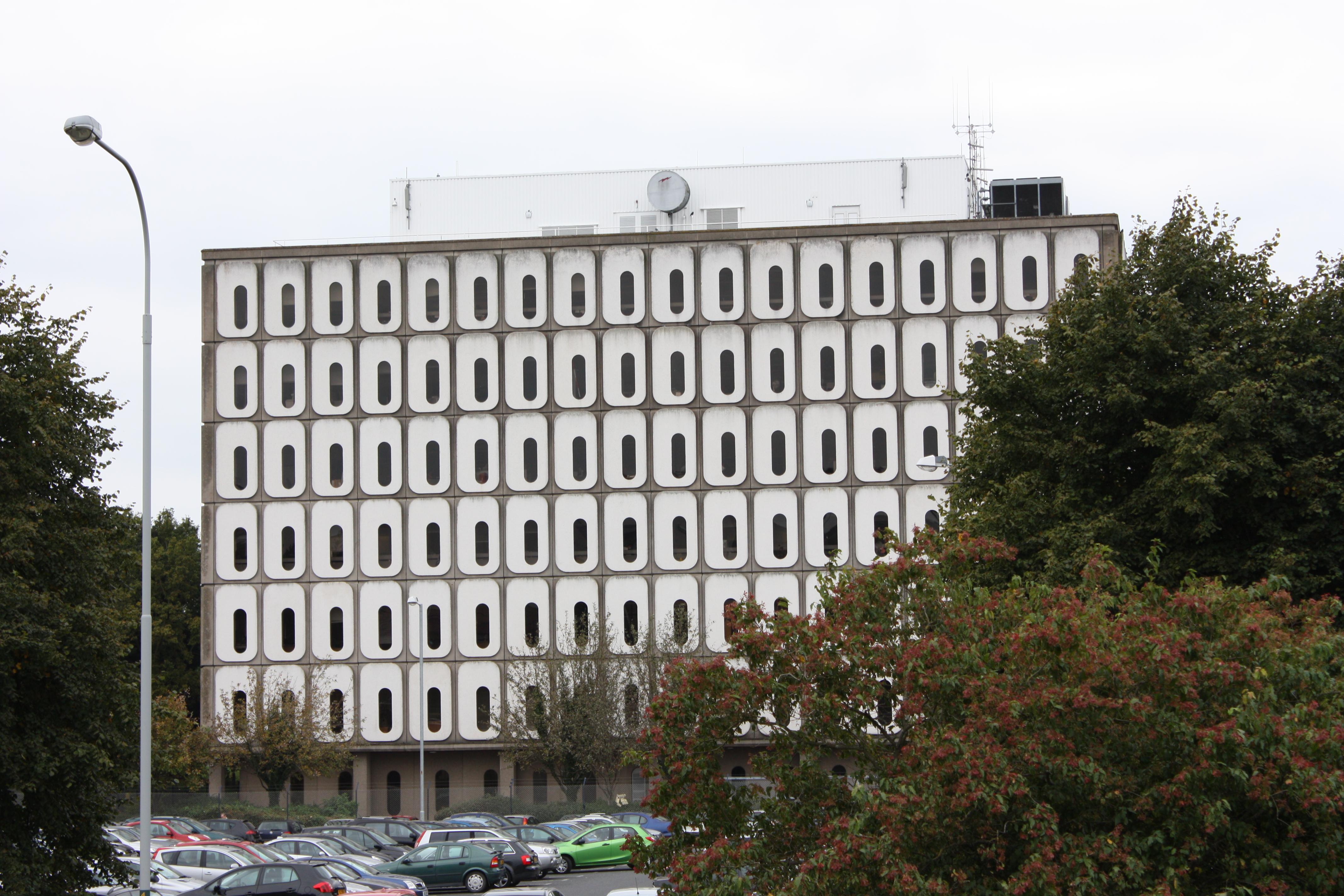 Marlborough House, Central Way, Craigavon, County Armagh, Northern Ireland, August 2009